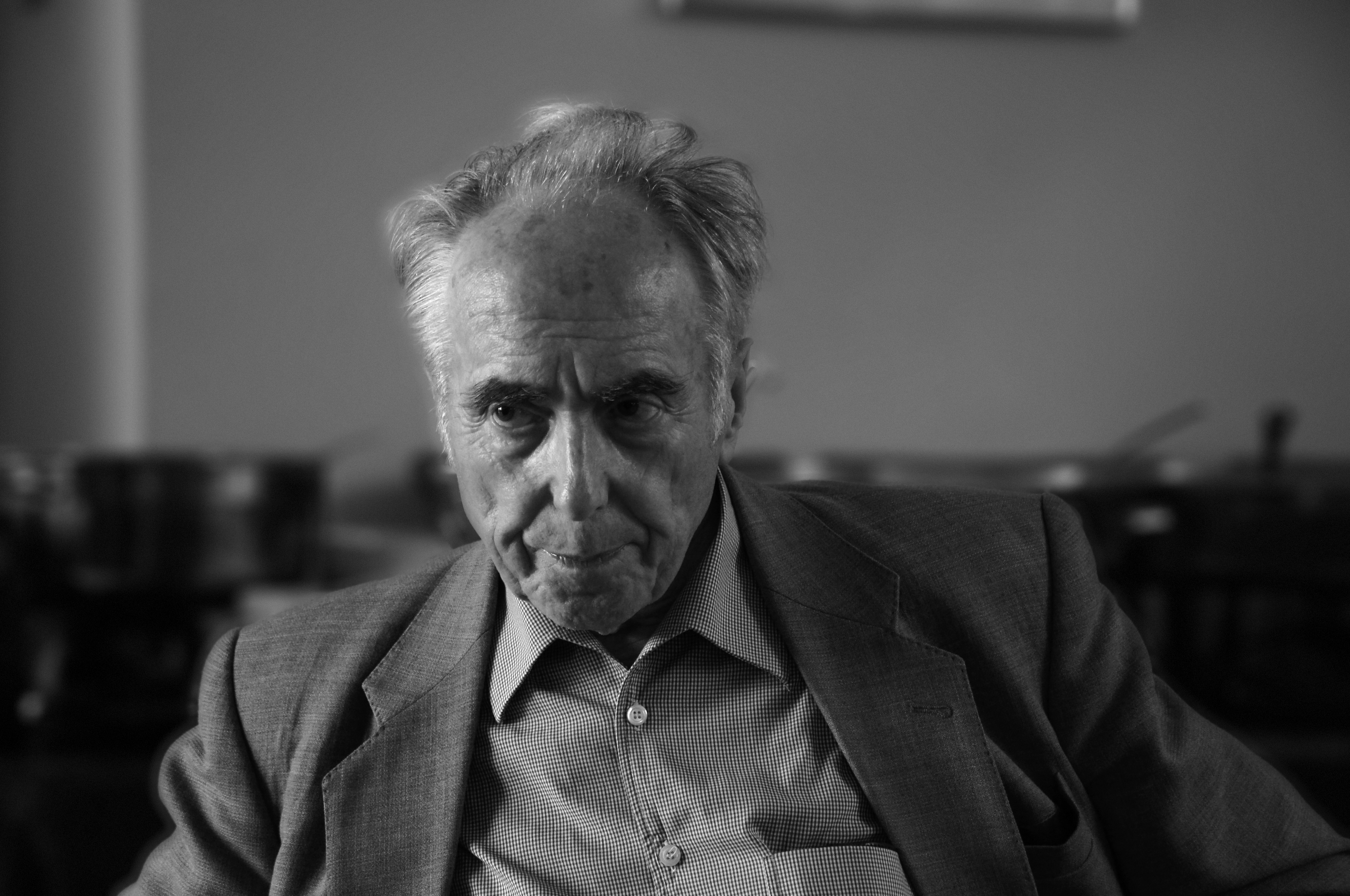 Portrait Alfred Hückler at 80th birthday 2011